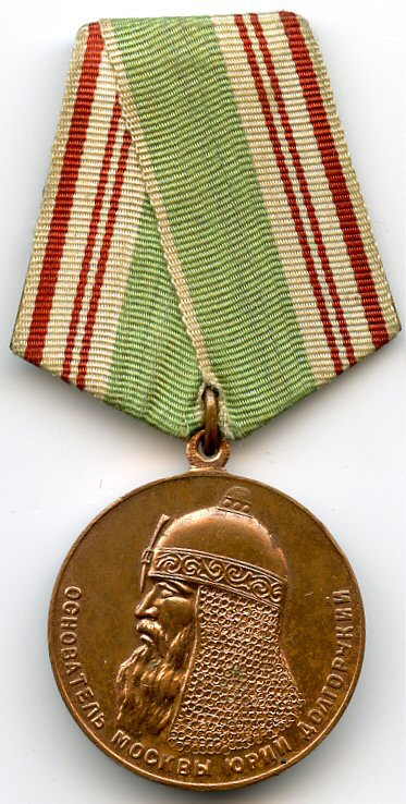 Medal "In Commemoration of the 800th Anniversary of Moscow" 1147 - 1947